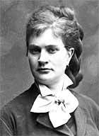 Portrait photograph of the Swedish photographer Maria Tesch (1850-1936)